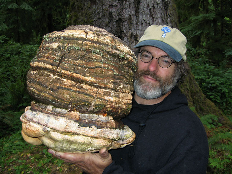 Paul Stamets, American mycologist (mushroom researcher), holding an Agarikon mushroom (Laricifomes officinalis)